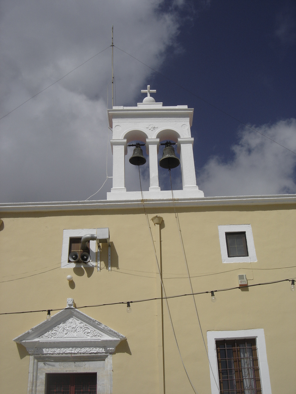 Church of Agii Pantes in Palia Anatoli settlement in Lasithi.